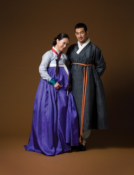 A woman wearing a short, tight-fitting jeogori (jacket) and a plump chima (skirt) / A man in durumagi (traditional topcoat)